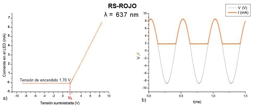 Fig.15 Figura con resultados del segundo procedimiento (circuito de c. alterna) a) Curva característica del LED rojo . b) Representación temporal de la corriente a través del LED (I), y de la tensión de alimentación (V).